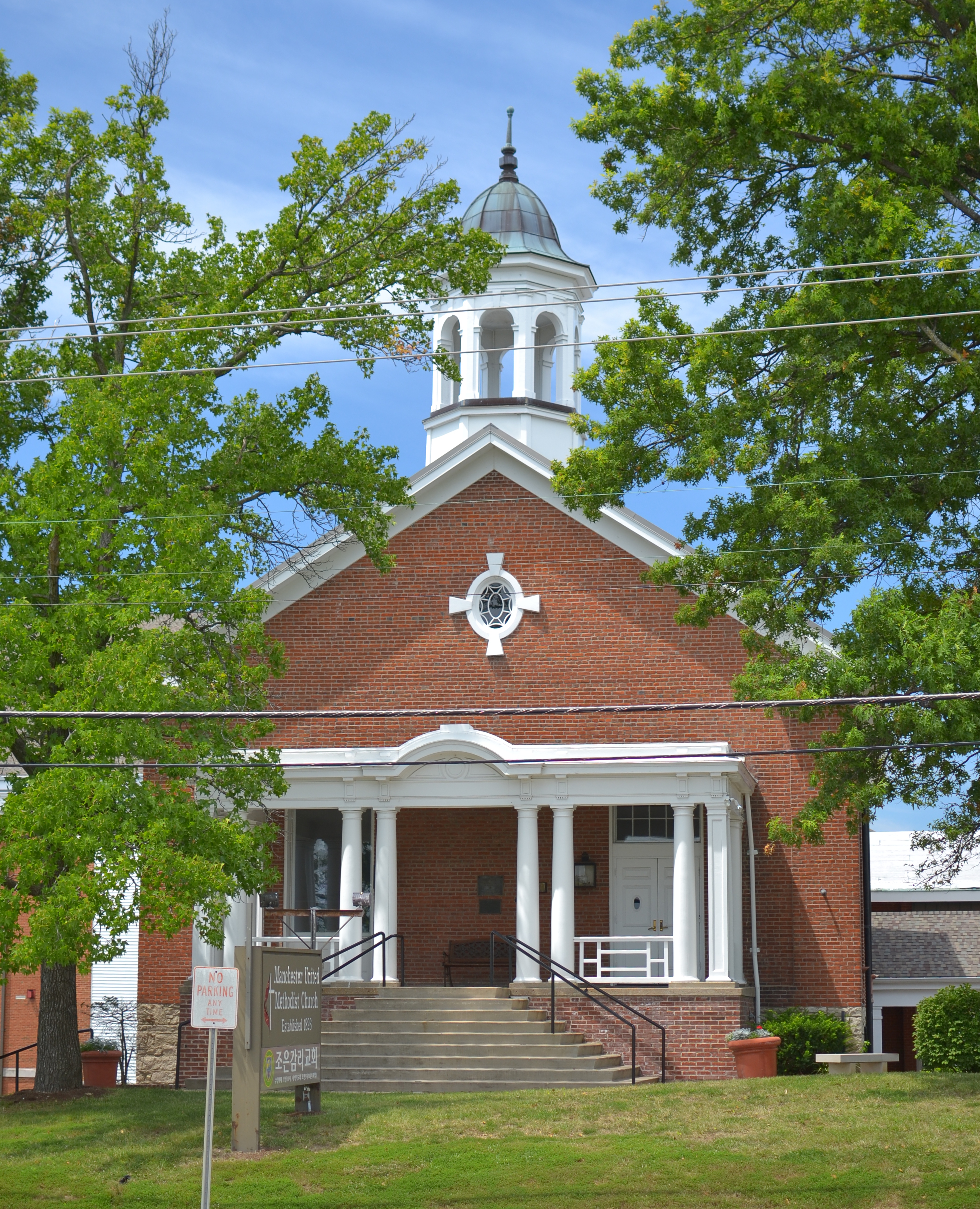 Manchester United Methodist Church in Manchester, Missouri chapel completed in 1859 when the congregation belonged to the Methodist Episcopal Church denomination.